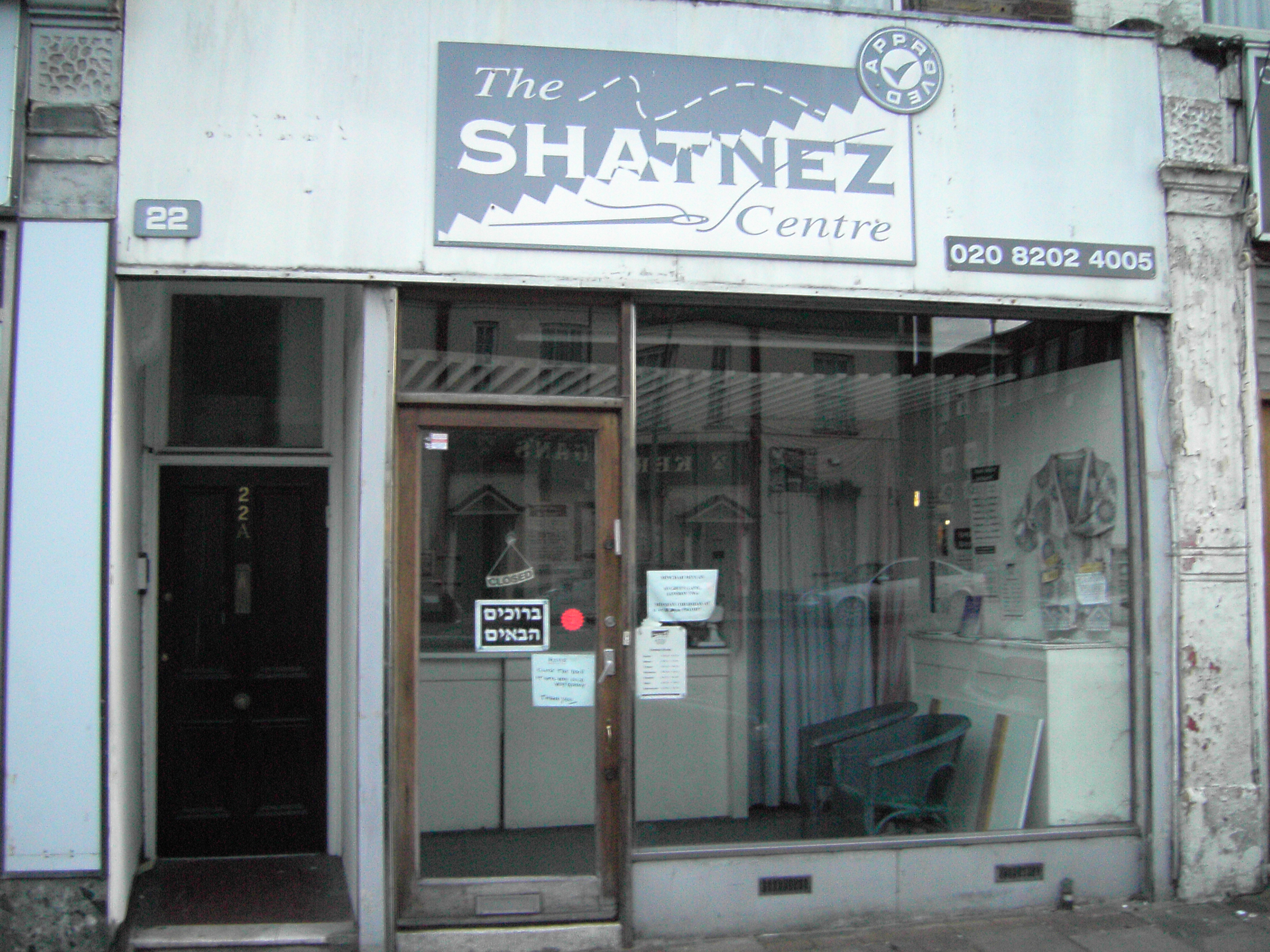 The Shatnez Centre, London NW4